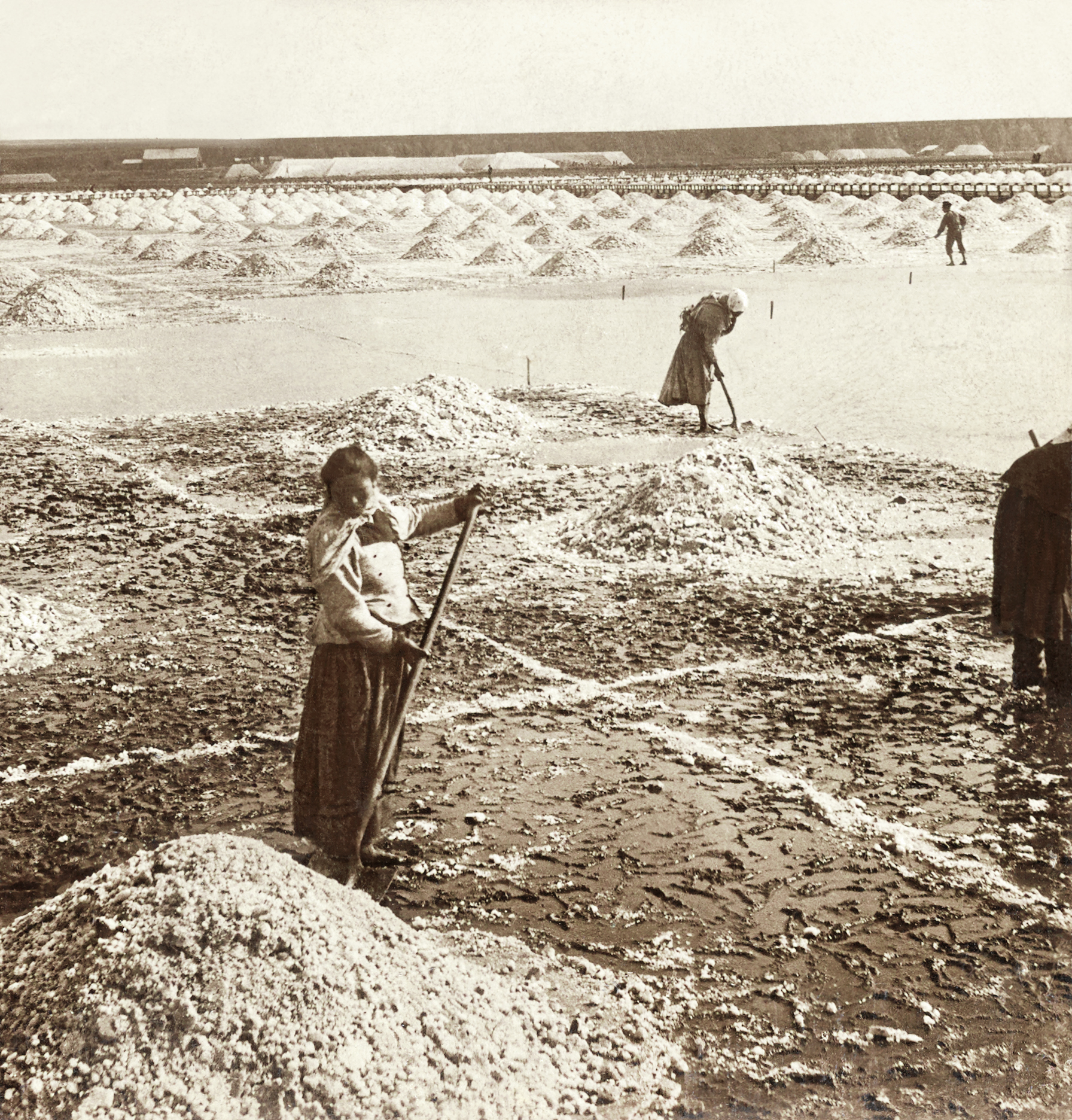 A reservoir after evaporation – turning up the salt – salt fields Solinen Russia. According to a similar publication by the same publisher,[1] these salt fields were located at the coast of the Black Sea in the Odessa area (today in Ukraine). ↑ Philip Emerson, William Charles Moore: Geography through the Stereoscope – Student’s Stereoscopic Field Guide. Underwood & Underwood, New York/London, 1907